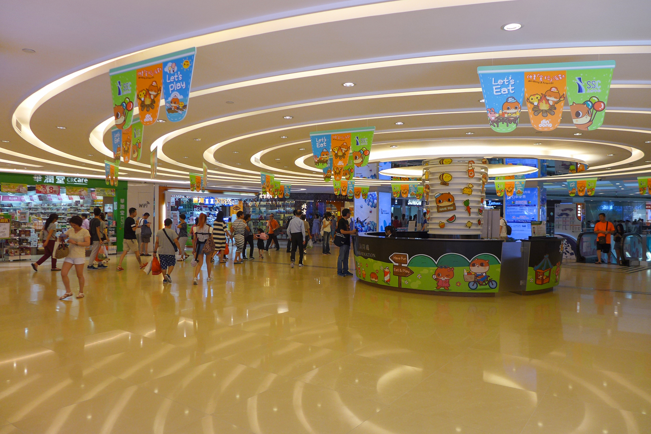 Sheung Shui Centre Shopping Arcade